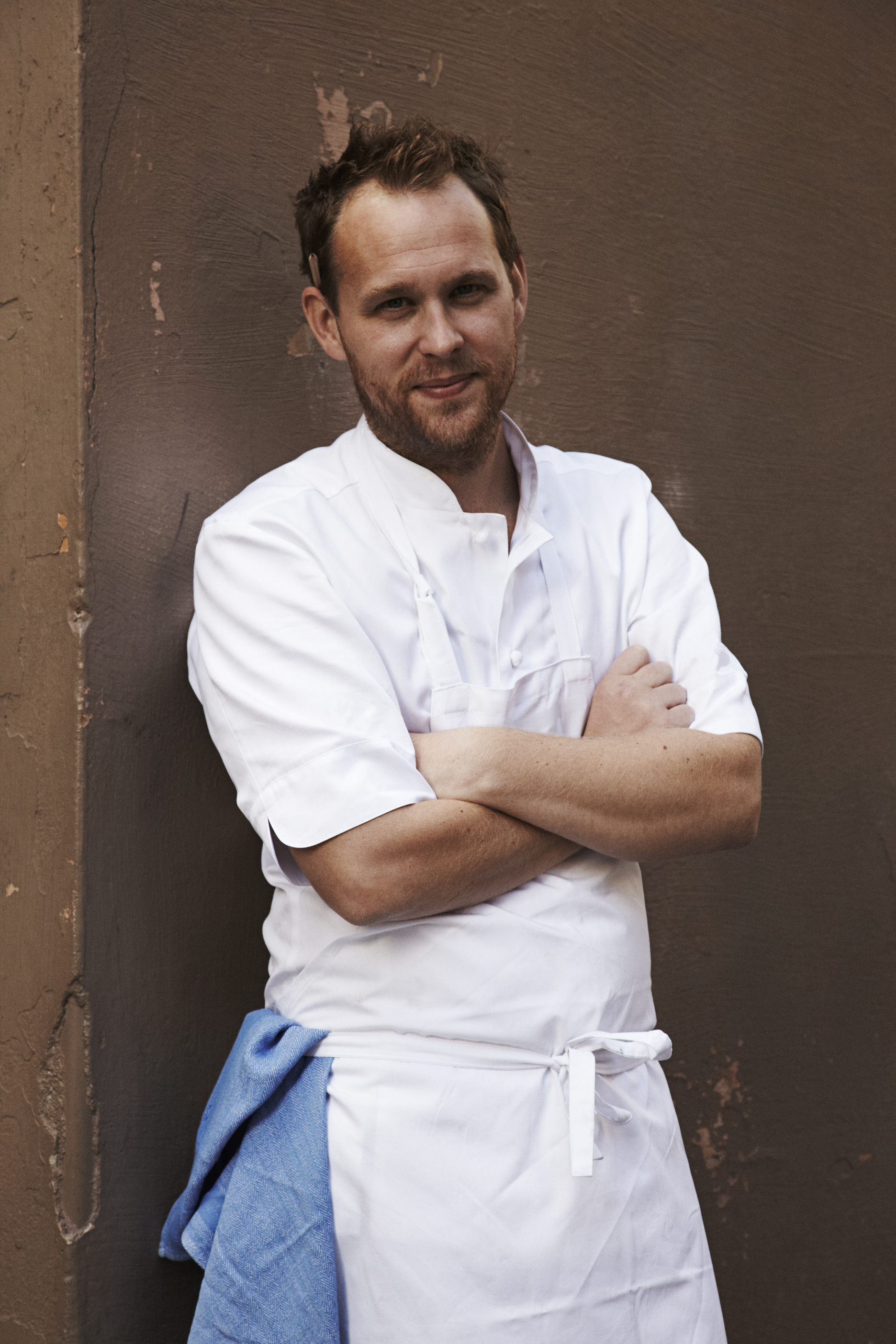 Swedish Chef Björn Frantzen / Restaurant Frantzén / Stockholm, Sweden